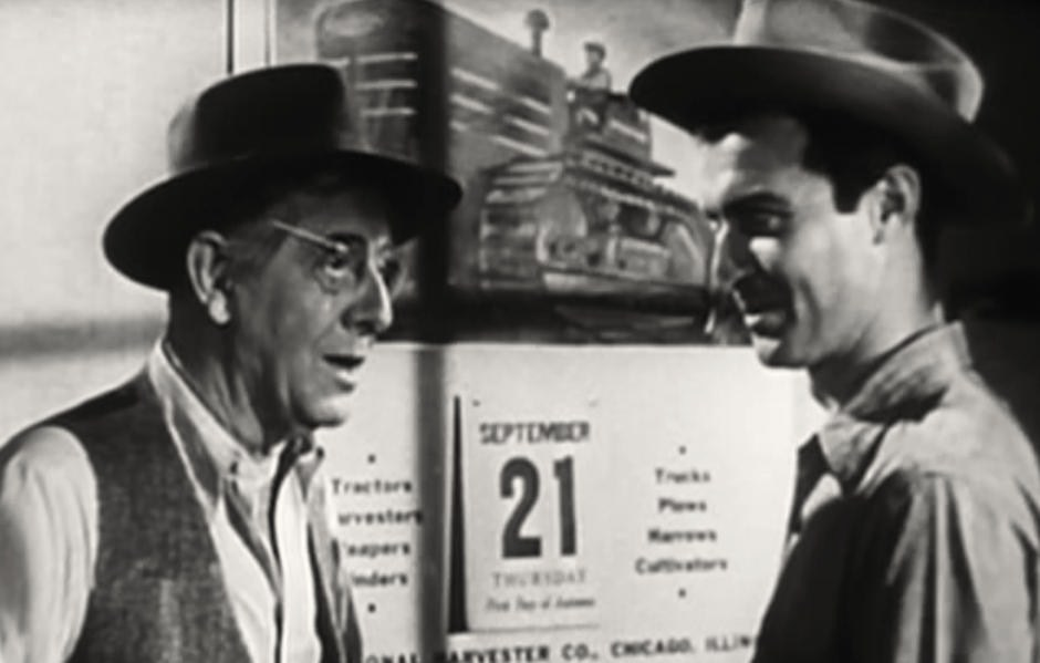 Paul Harvey (left) & Zachary Scott in The Southerner - cropped screenshot